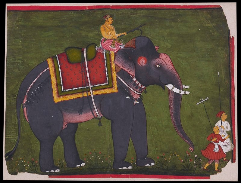 Maharao Bhao Singh riding an elephant. Bundi. Ca. 1675, Bundi, Ashmolean Museum